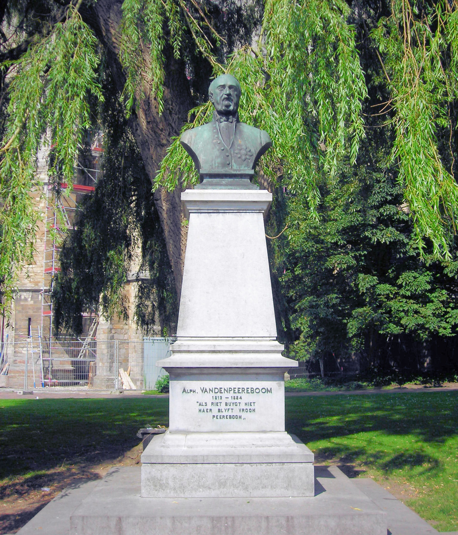 Statue of Alphonse Vandenpeereboom (1812-1884) former mayor of Ypres outside St. Martin's Cathedral.